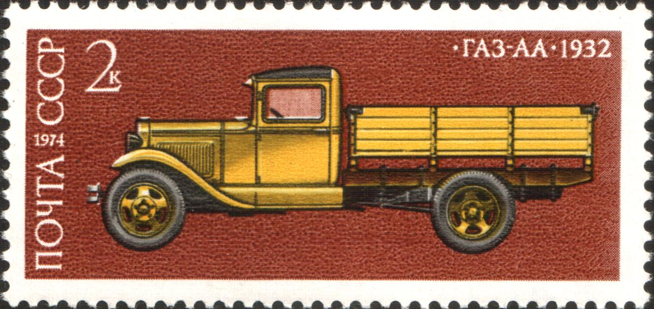 USSR stamp